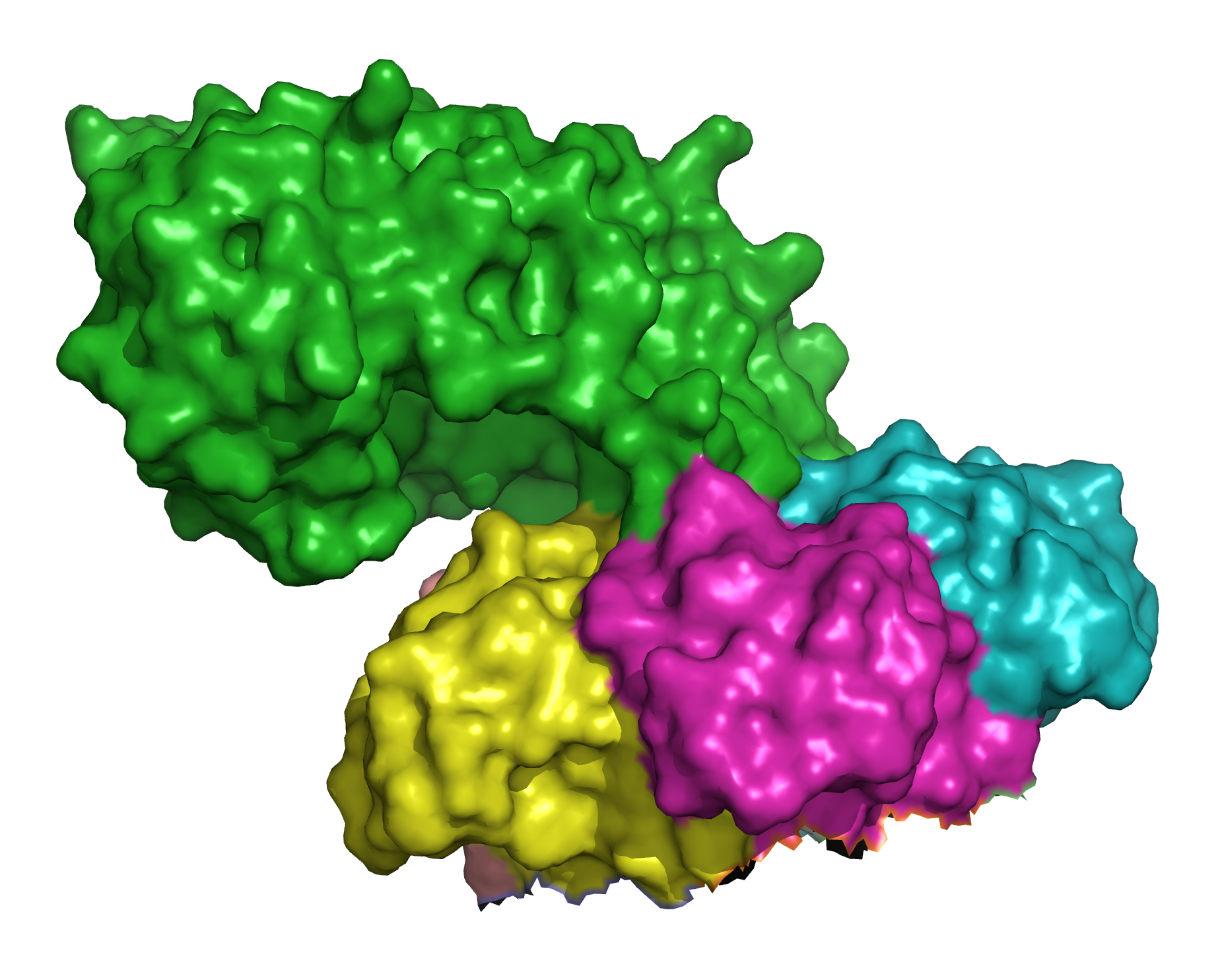 3d surface model of shiga toxin A+5B subunits (stxB from Shigella dyasenteriae) from PDB 1DMO. Ref.: M.E.Fraser et al. (1994). Crystal structure of the holotoxin from Shigella dysenteriae at 2.5 A resolution.. Nat Struct Biol, 1, 59-64. PMID 7656009 [